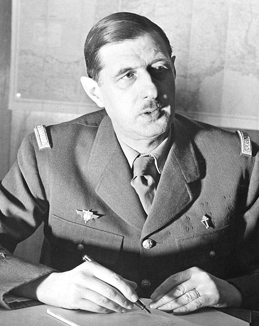 Photograph of Commander of the Free French Forces General Charles de Gaulle seated at his desk in London originally uploaded to Wikimedia Commons by Ducksoup. Cropped and reuploaded by Emiya1980.